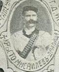 Portrait of SMAC member general Krasto Misailev from Dragoishta